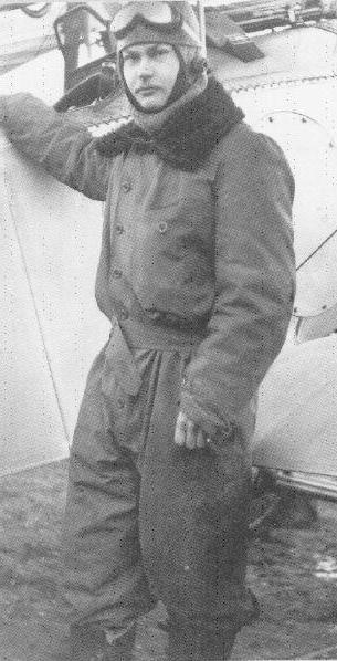 Edmond Charles Clinton Genet circa 1915-1917